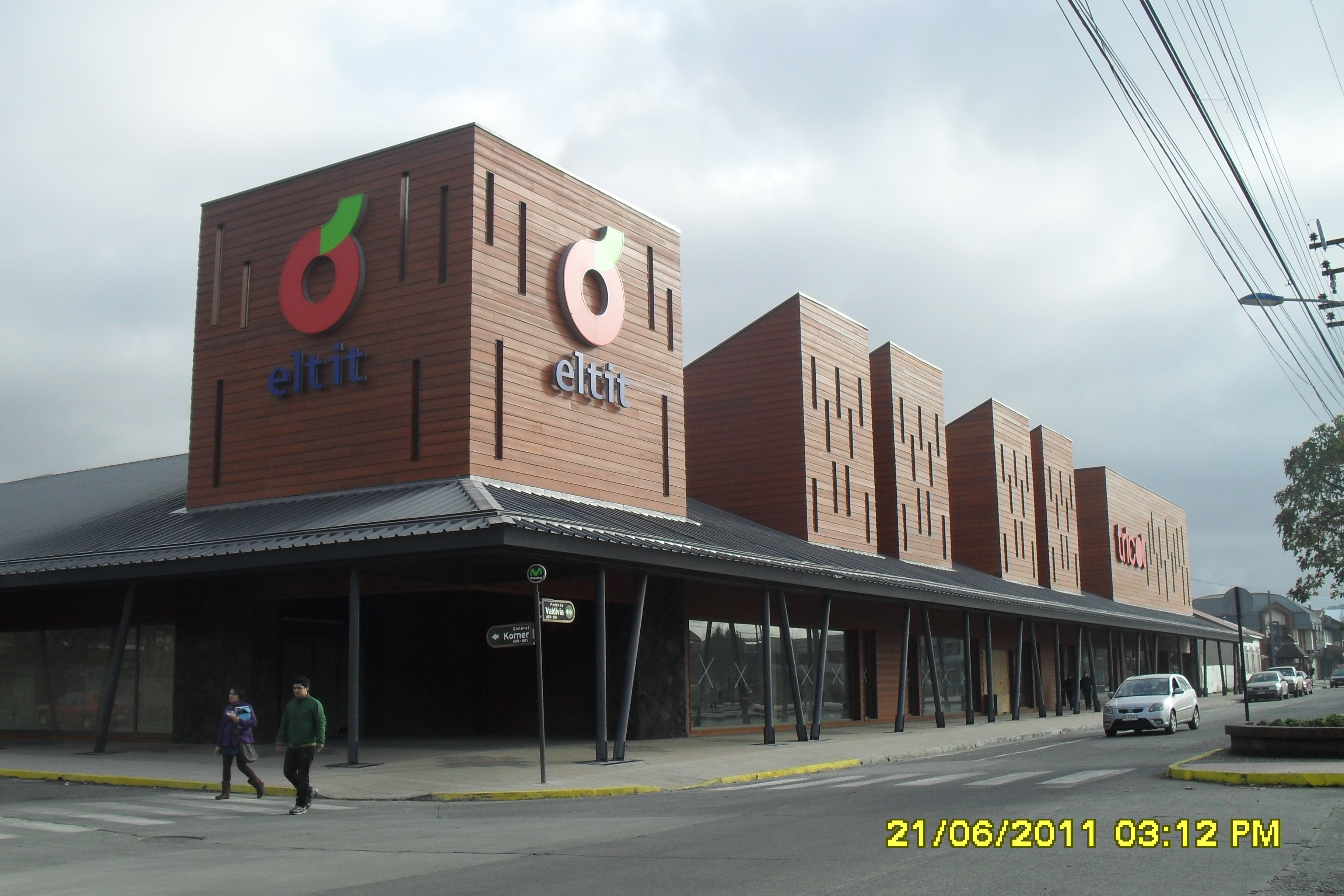 Edificio de Villarrica